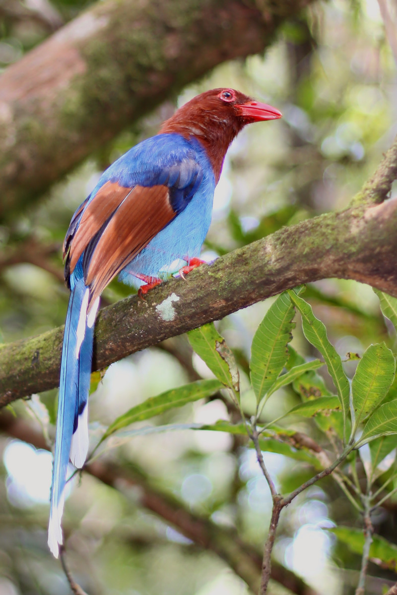 Sri Lanka Blue Magpie (Urocissa ornata), taken at Sinharaja Forest Reserve, Sri Lanka